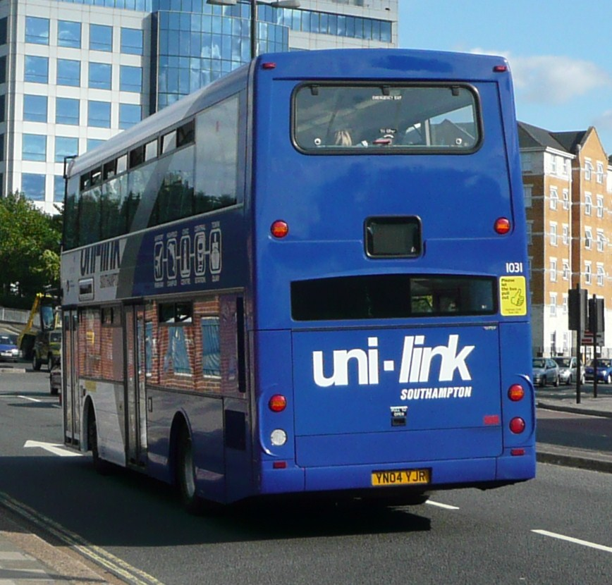 The back of a Uni-link bus in Civic Centre Road, Southampton. The photo was taken on the 29 September 2008, the first day of Bluestar operation of the contract. The bus, previously Enterprise 31, is Bluestar 1031 (YN04 YJR), and has gained a new fleet number as such (right hand side on lower deck).